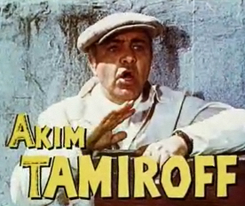 Cropped screenshot of Akim Tamiroff from the trailer for the film Fiesta